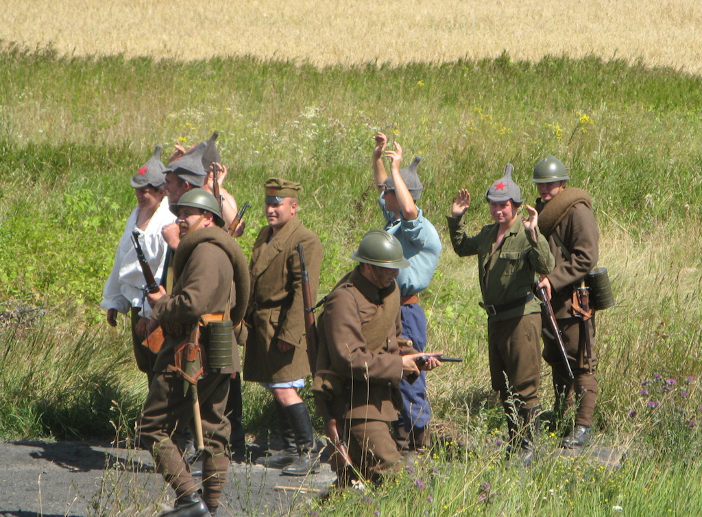 Historical reenactment of Łomża defence during Polish-Soviet War (1920) - Fortifications in Piątnica